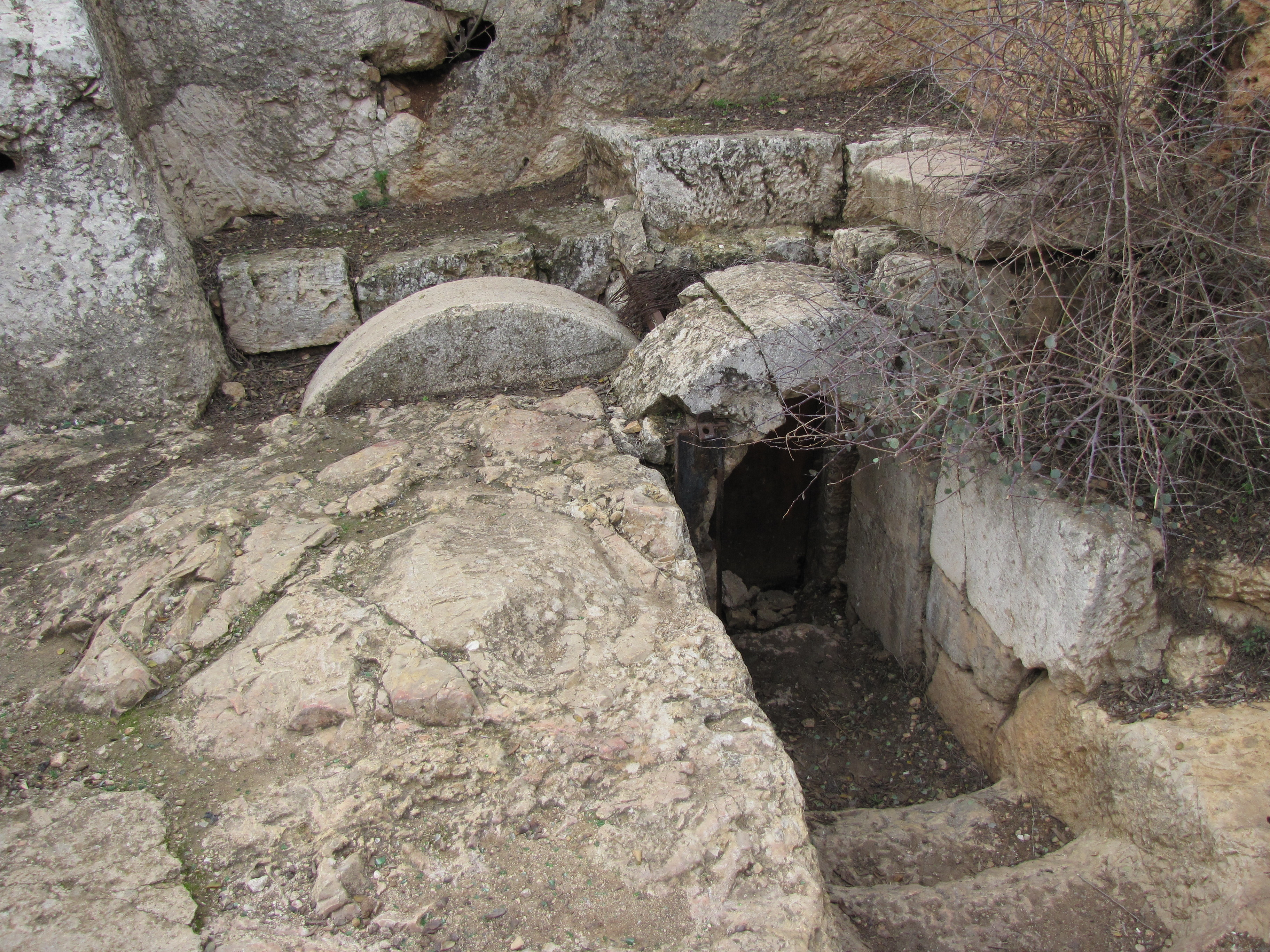 herod's family tomb jerusalem - One of several candidates for the tomb in which Jesus was buried. Notice the rolling stone to shut the door Jerusalem